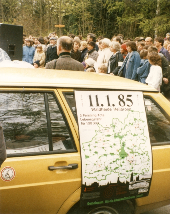 Fort Redleg: rally of the German peace movement in front of the gate